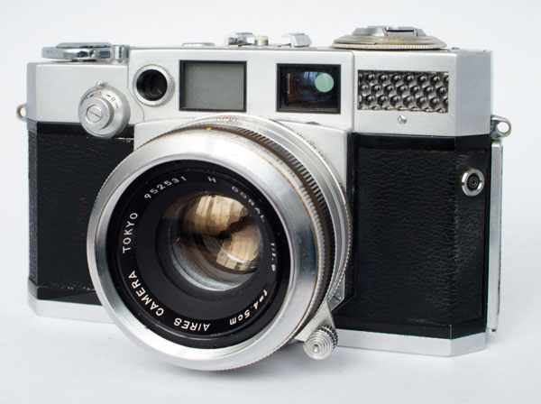 Aires 35-V